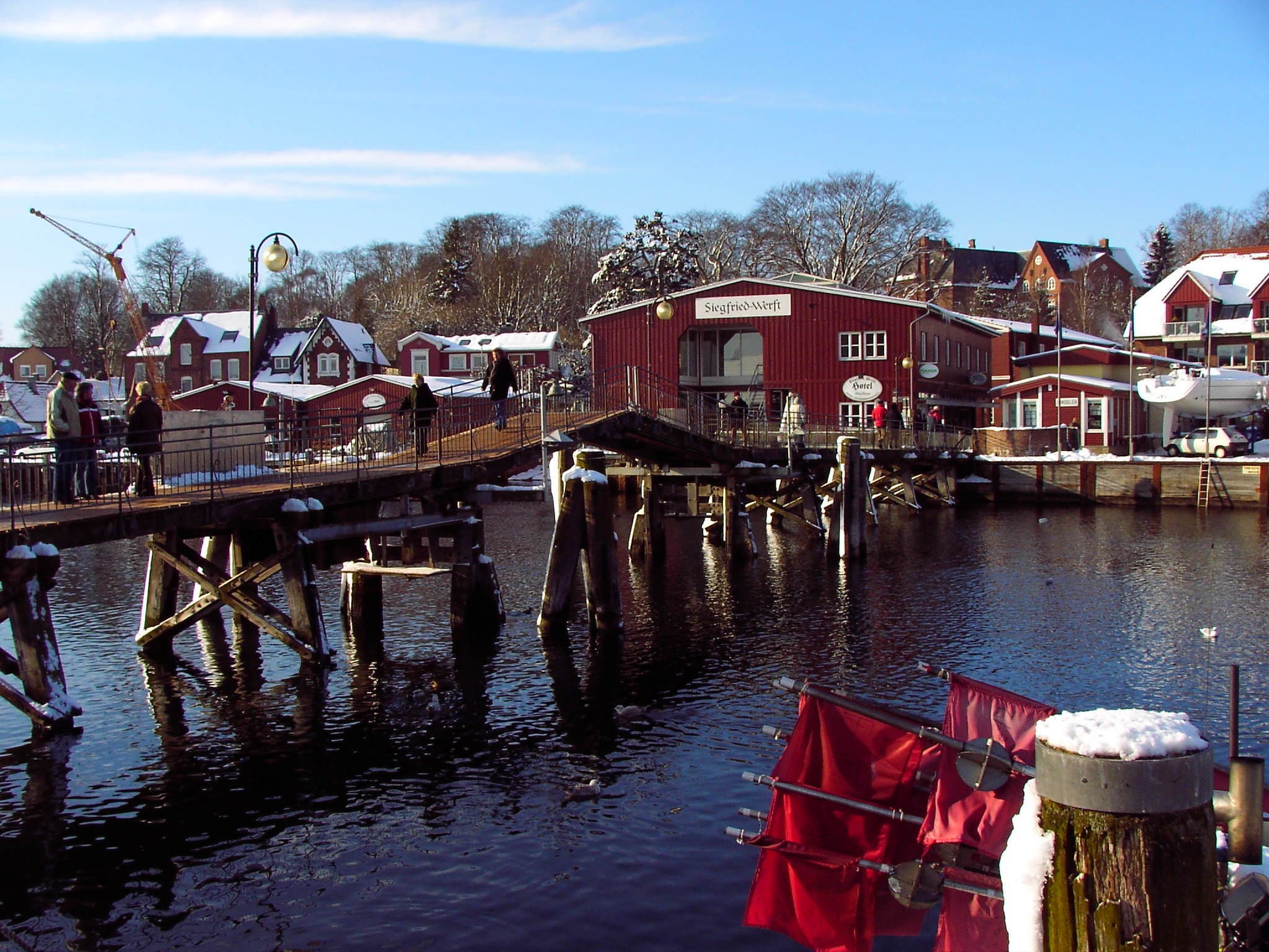 Port of Eckernförde with wooden pedestrian bridge